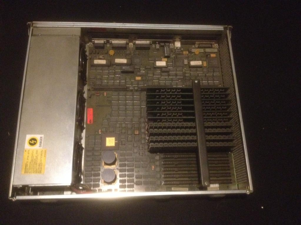 DECstation 5000/200 with 3 (empty) Turbochannel slots, cover removed. Front side is on the lower end.